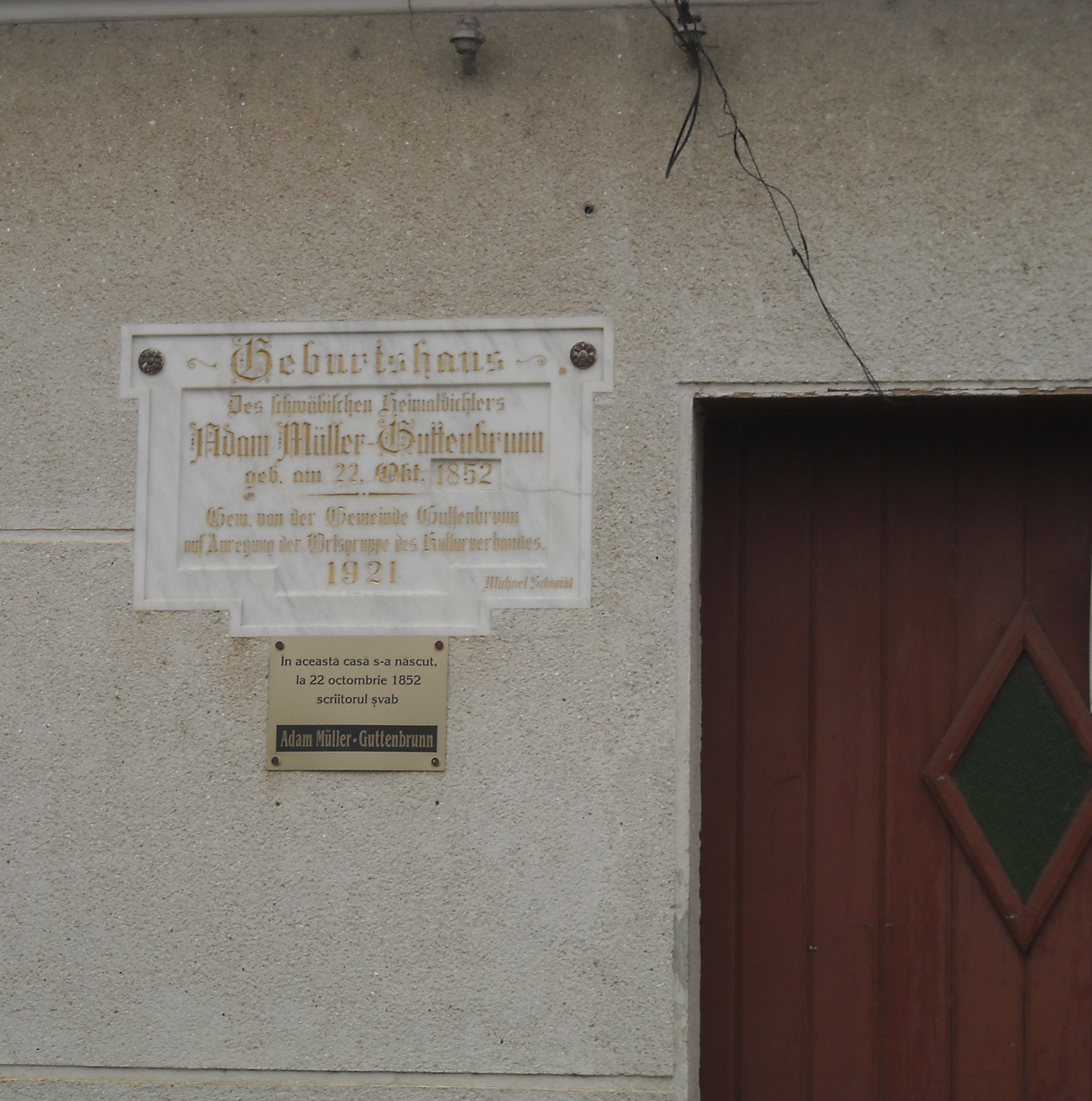 memorial plate on Adam Müller-Guttenbrunn's birthplace in Zăbrani (Guttenbrunn), Arad County (Banat), Romania